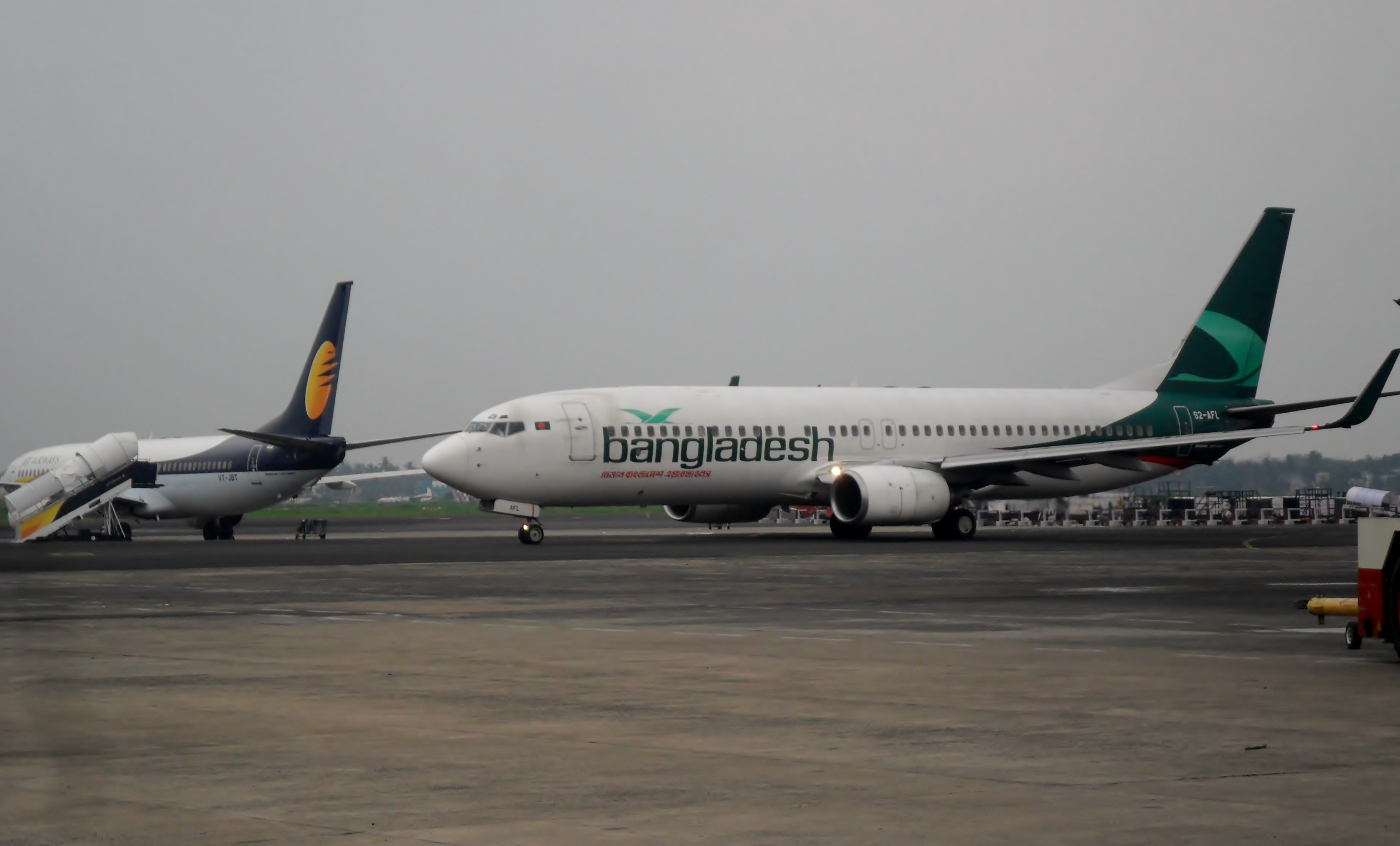 A Biman Bangladesh B737 at CCU, on a service to Dhaka